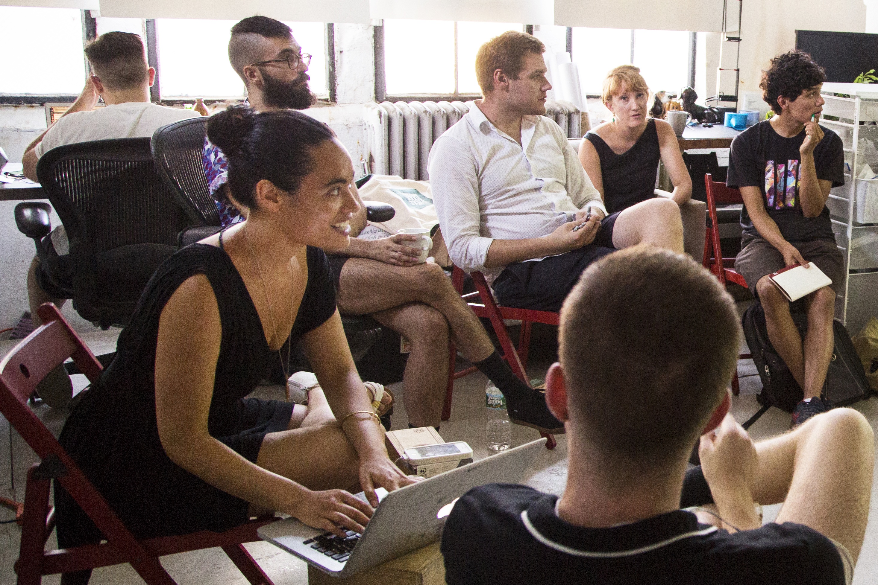 Chloe Bass meets with New York Arts Practicum participants in 2013.